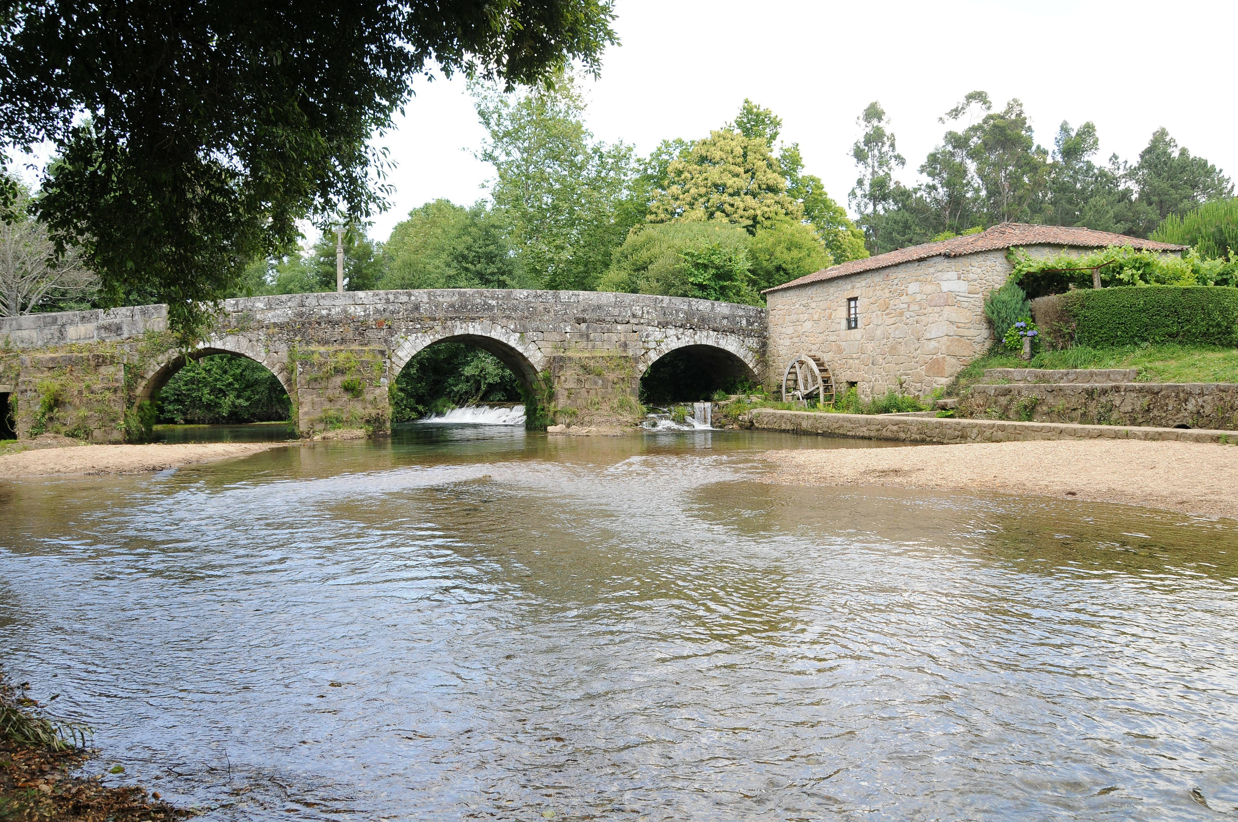 Estoraos Bridge, in Estorãos, Ponte de Lima, Portugal